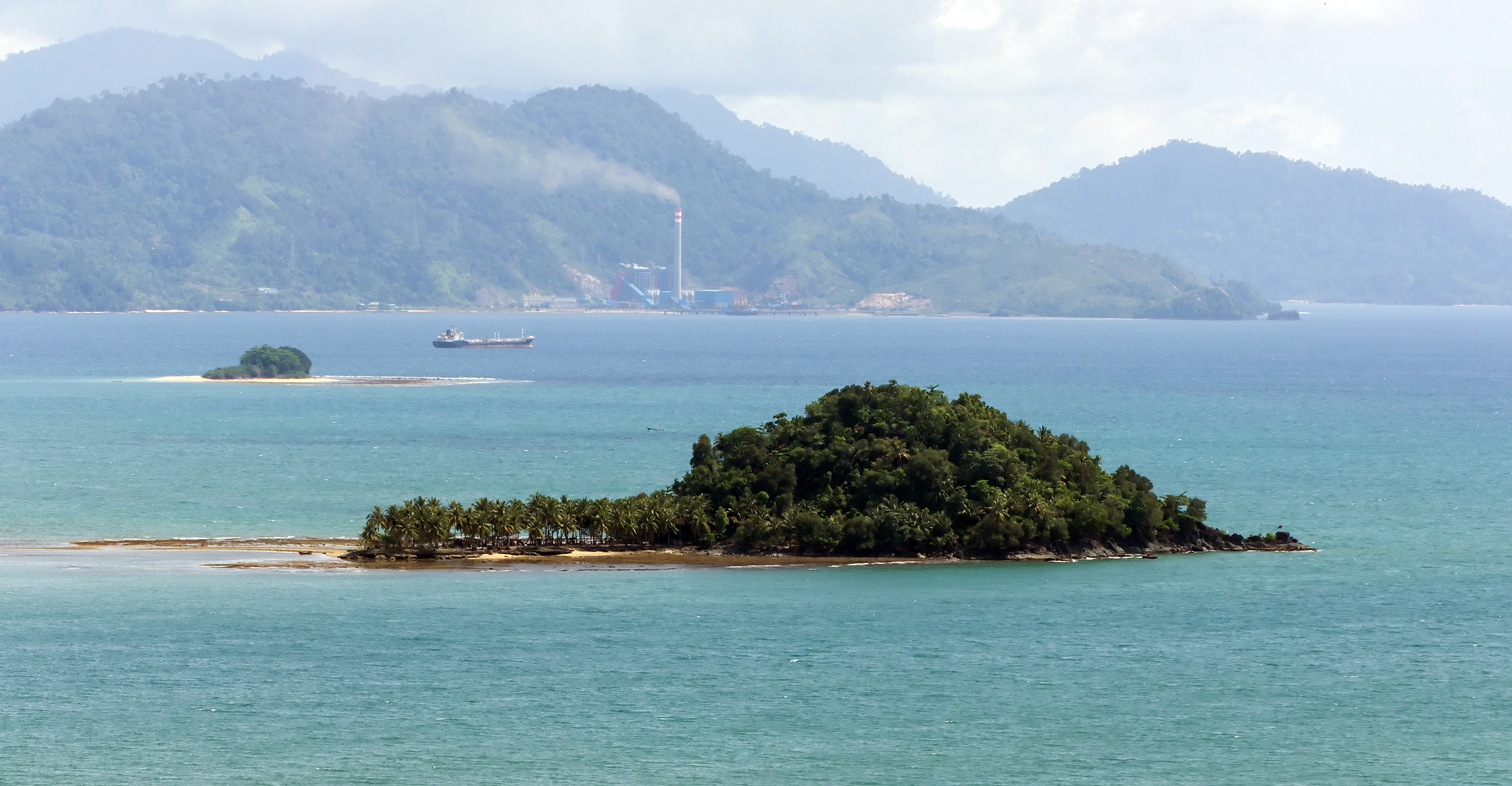 Pisang Ketek ['Small Banana'] Island, Padang 2017-02-14